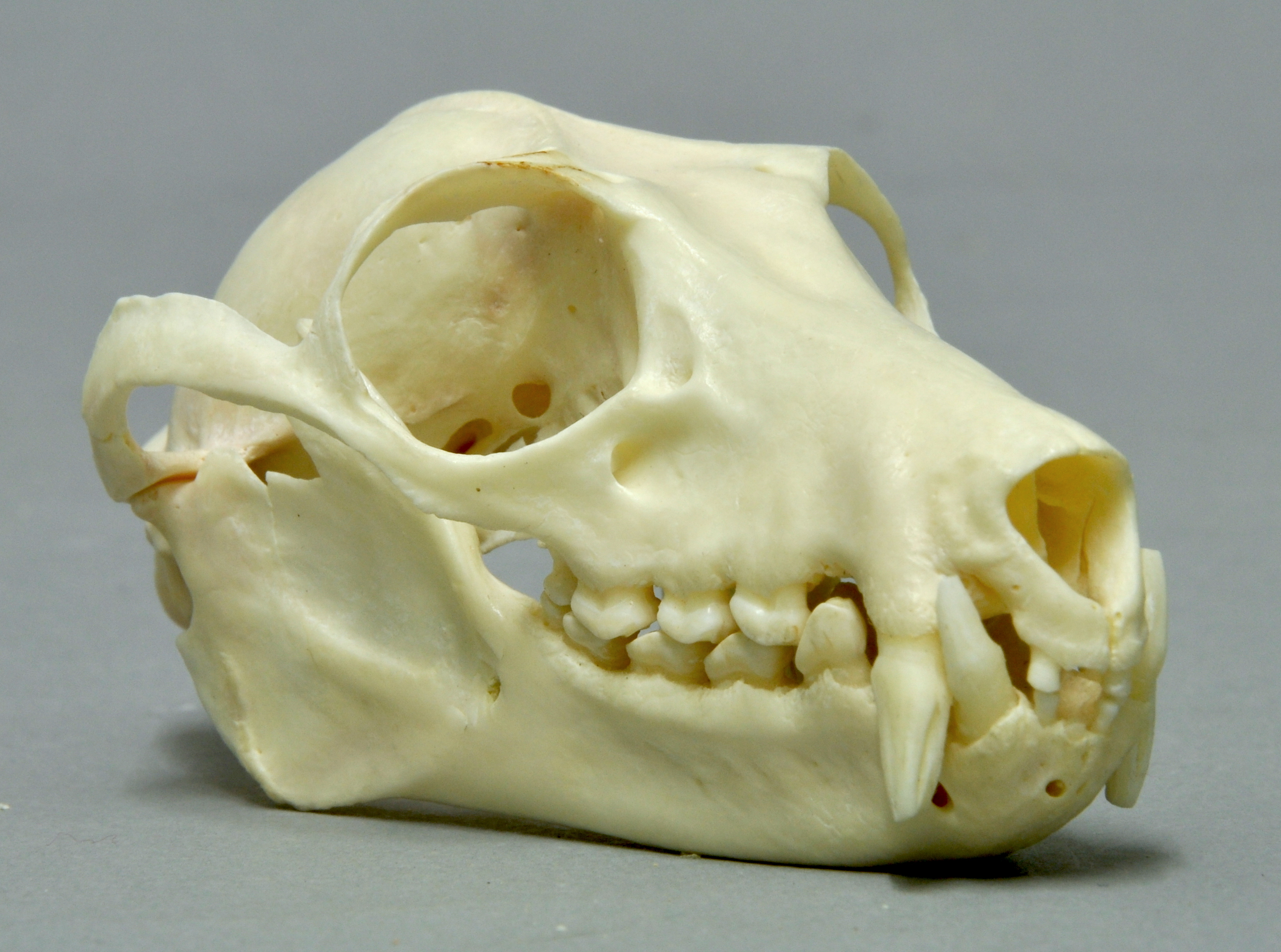 Black-eared flying fox Pteropus melanotus, skull, Coll. Museum Wiesbaden